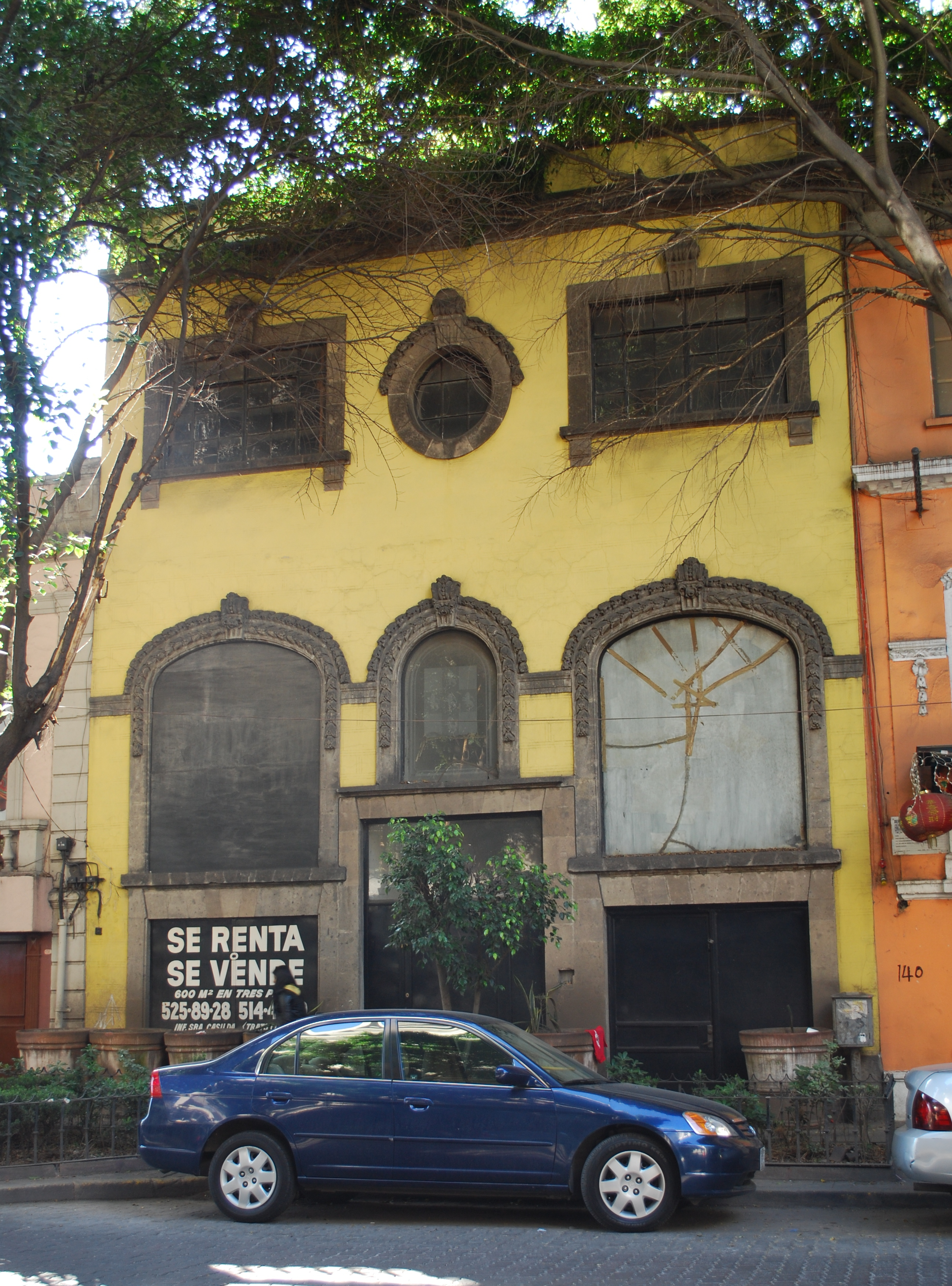 Abandoned older house on